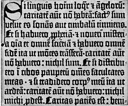 The 42-Line Bible. (Printed at Mainz, 1452-1456. British Museum.)Illustration from 1911 Encyclopædia Britannica, article Bible.